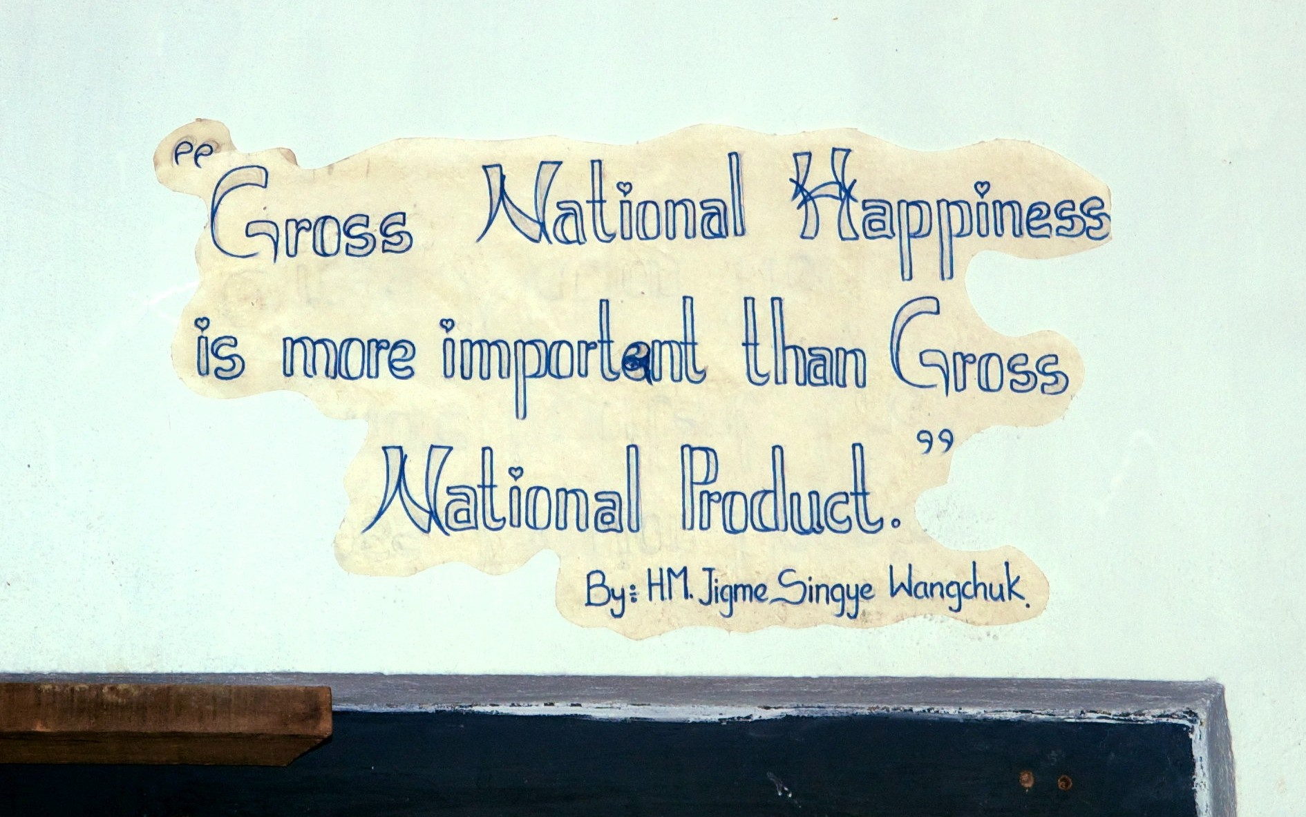 "Gross National Happiness is more important than Gross National Product" by Jigme Singye Wangchuck, King of Bhutan. Slogan on a wall in Thimphu's School of Traditional Arts